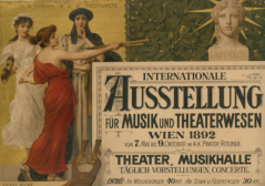 Poster of the International Music und Theatre Sciene Expo Vienna, 1862